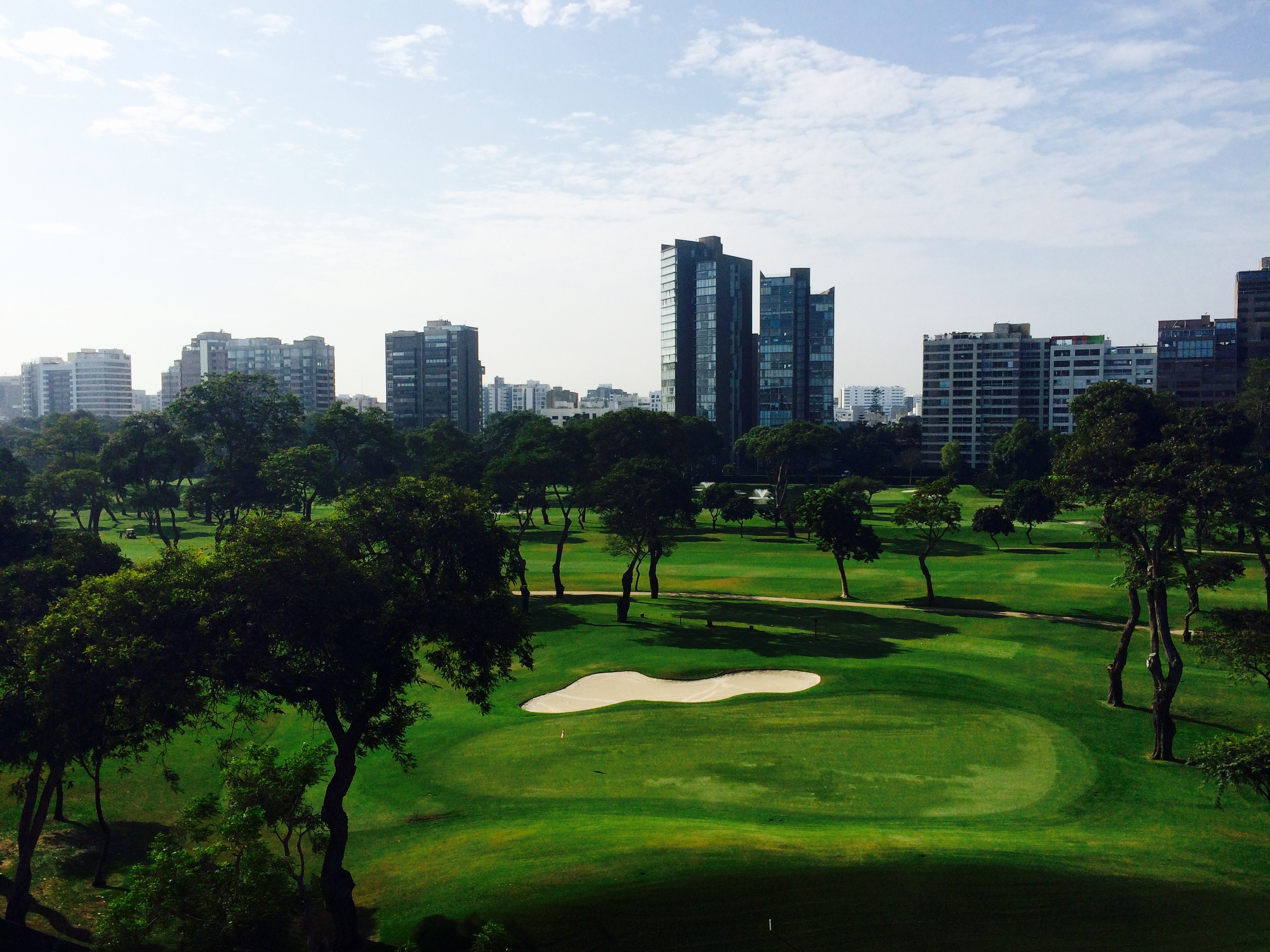 Lima Golf Club Course